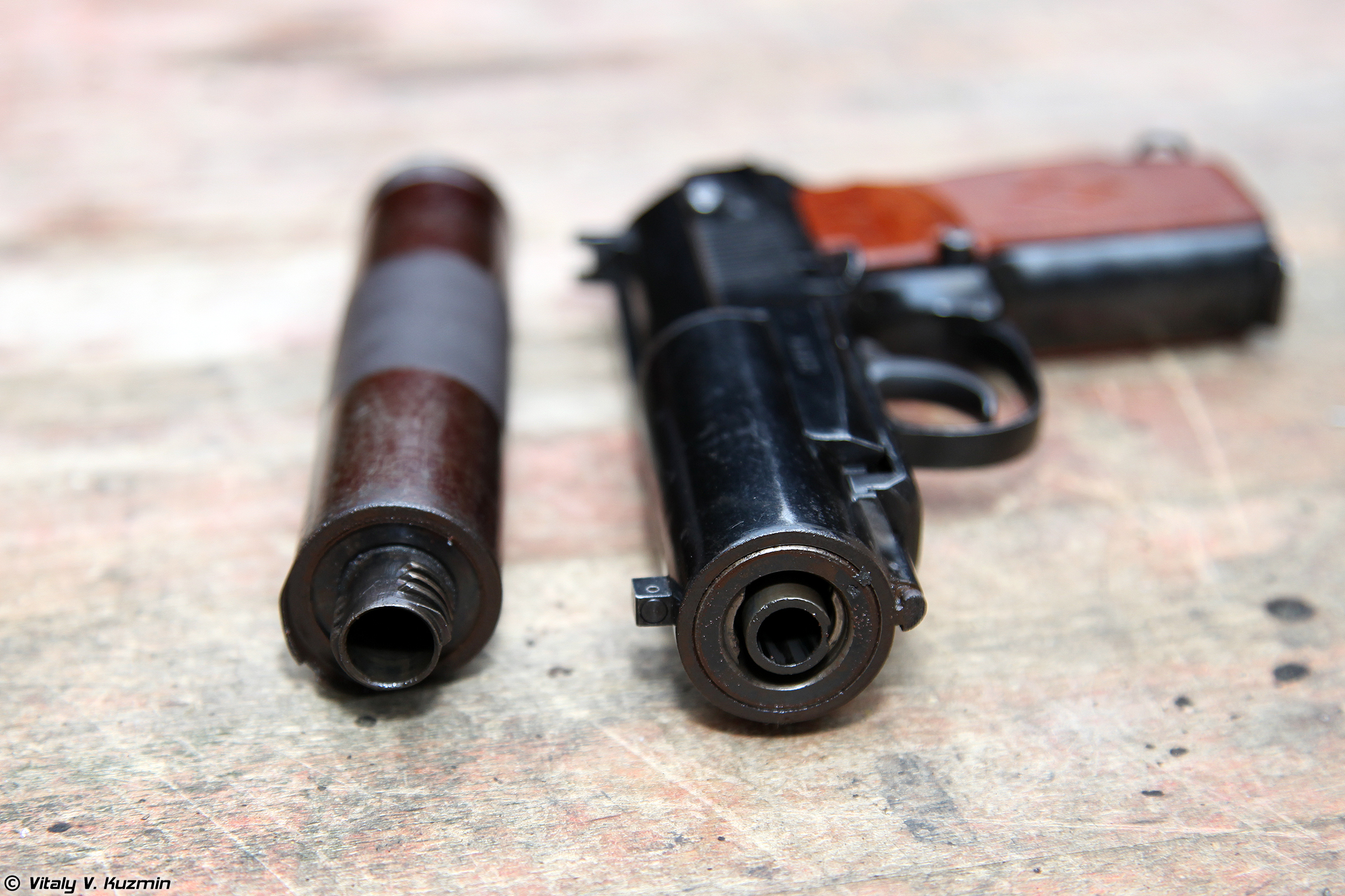 Walkaround of silent pistol 6P9 PB, based on PM pistol.